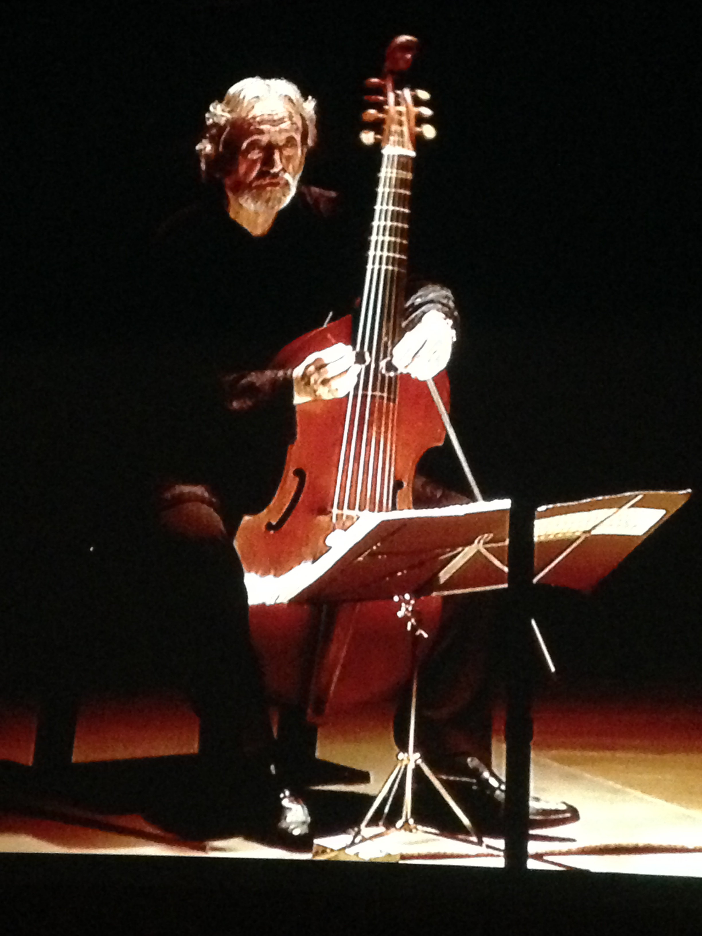 Jordi Savall with his viol